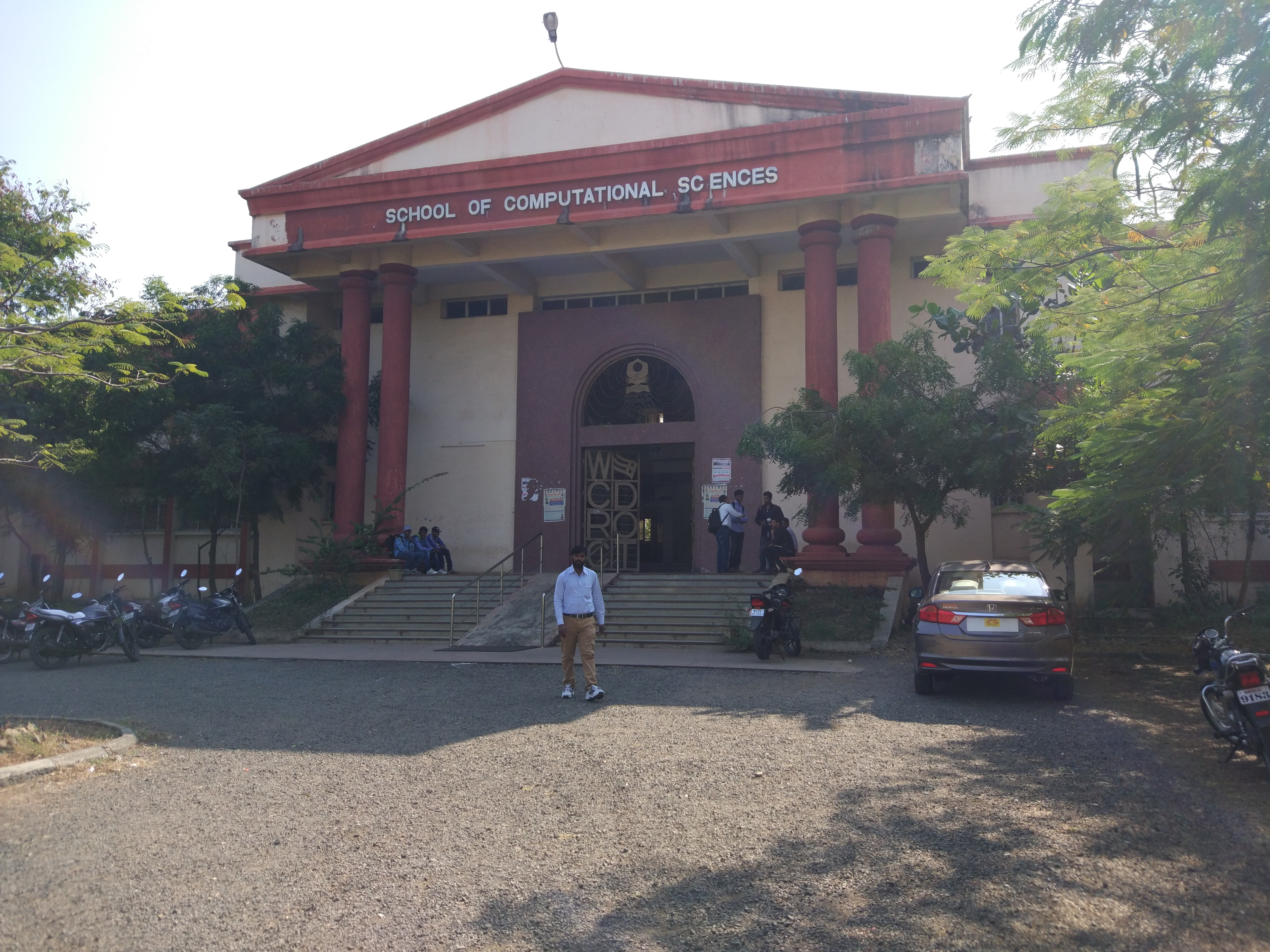 This is the front view of School of Computational Sciences, SRTMU Nanded